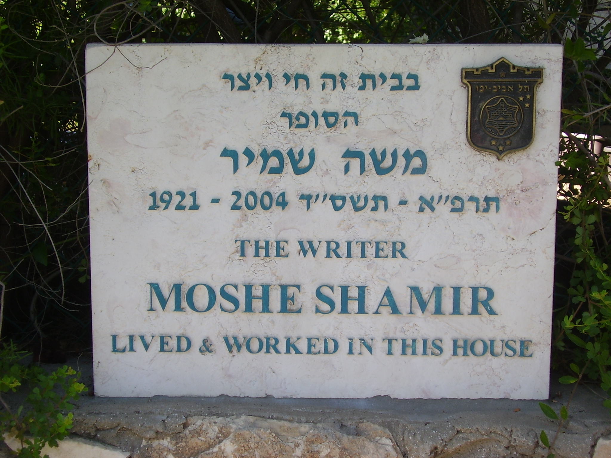 memorial plaque on the house of the writer moshe shamir in tel aviv לוחית זיכרון על ביתו של משה שמיר ברח' קהילת סופיה 16 בתל אביב